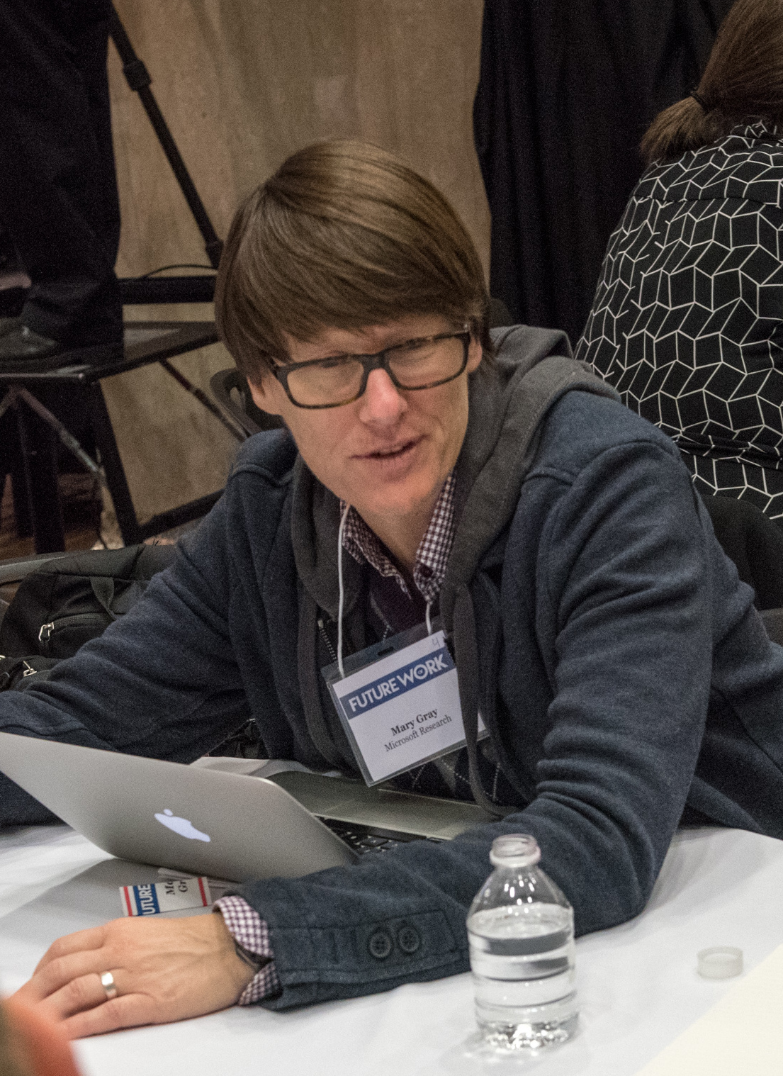 DOL employees and outside attendees listen to each other about jobs and future work during a breakout sessions after Deputy Secretary of Labor Christopher P. Lu talked on a panel in the Great Hall in the DOL Building fora panel on “Positive Choices in the Digital Sector: Building Good Jobs Principles into Emerging Platforms” "Future of Work."